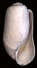 Retusa obtusa; marine gastropod shell commonly occurring in the North Sea.